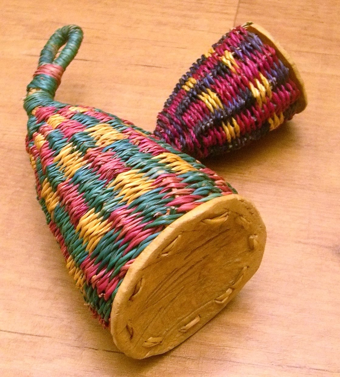 a pair of caxixi